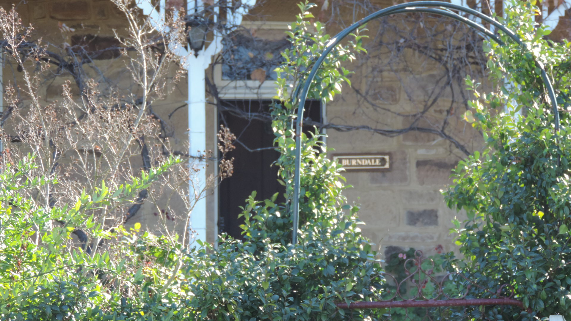 Burndale, Swan Creek